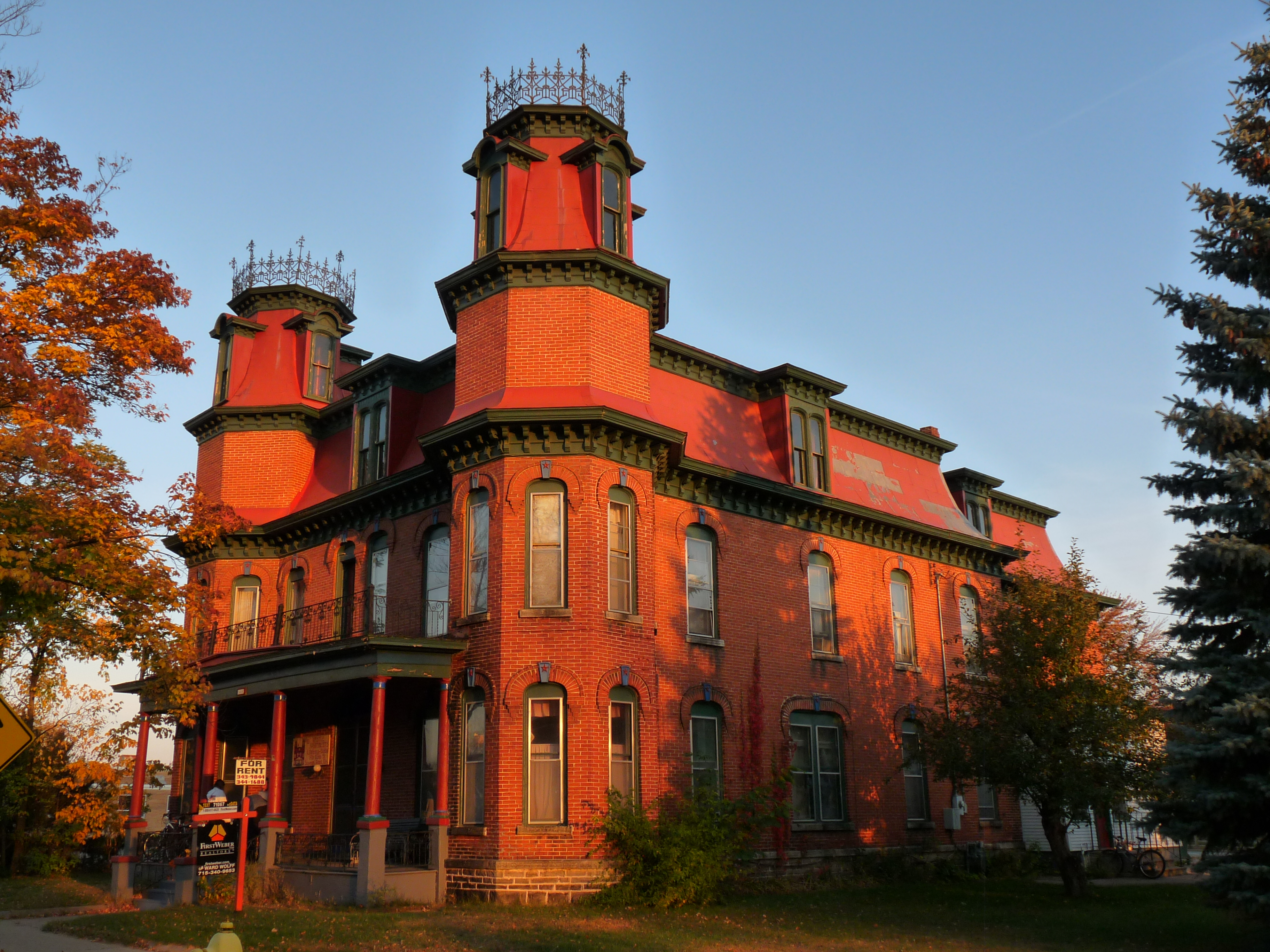 The Christina Kuhl house in Stevens Point, Wisconsin, was built in 1886 in the Second Empire architectural style. Today the house is on the National Register of Historic Places.